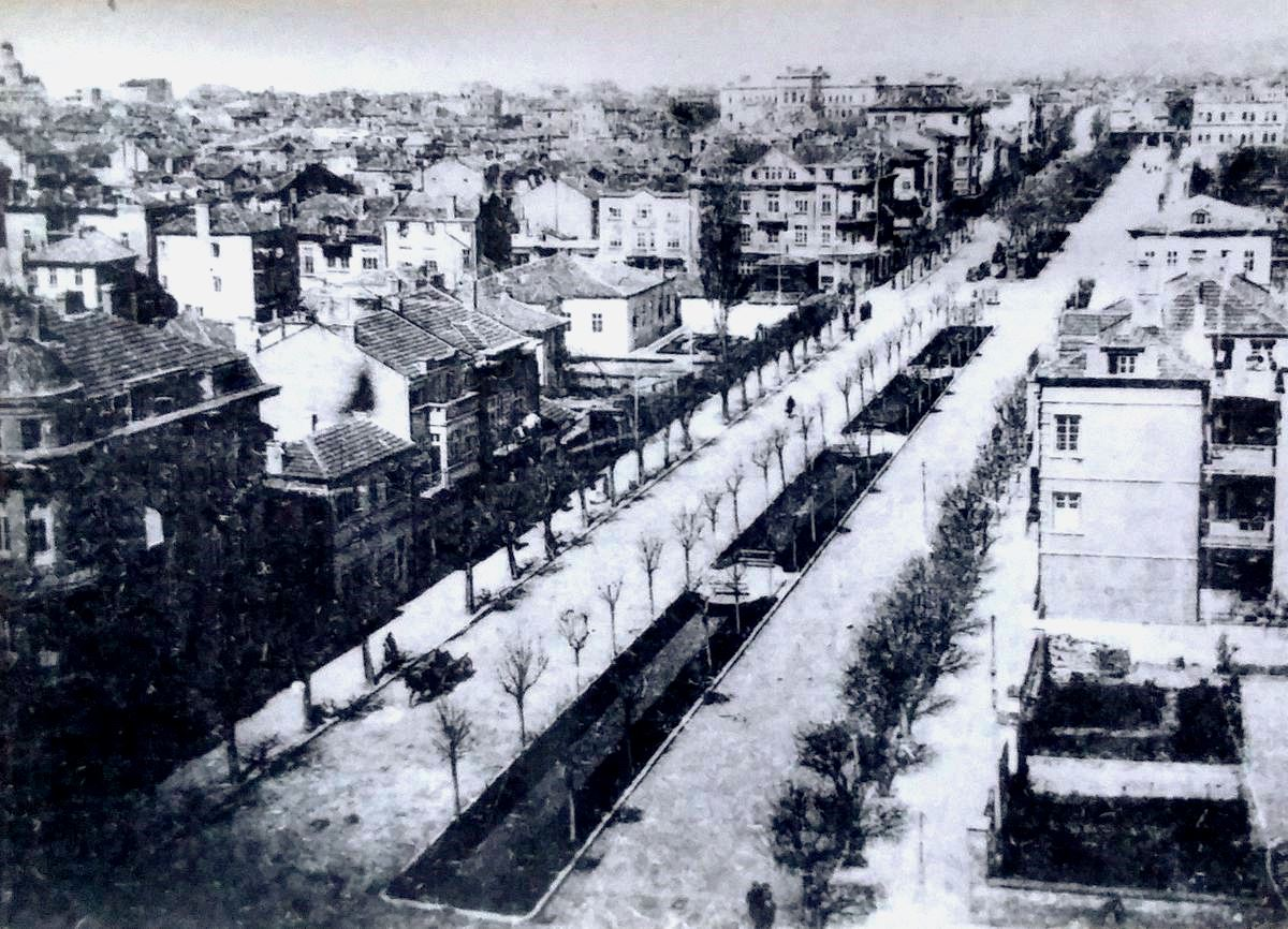 Varna. Photos of "Slivnitsa" boulevard.